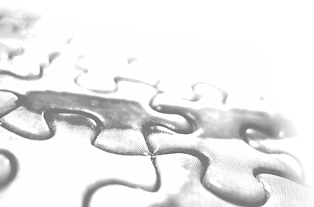 Jigsaw puzzle pieces, ideal for a webpage background.